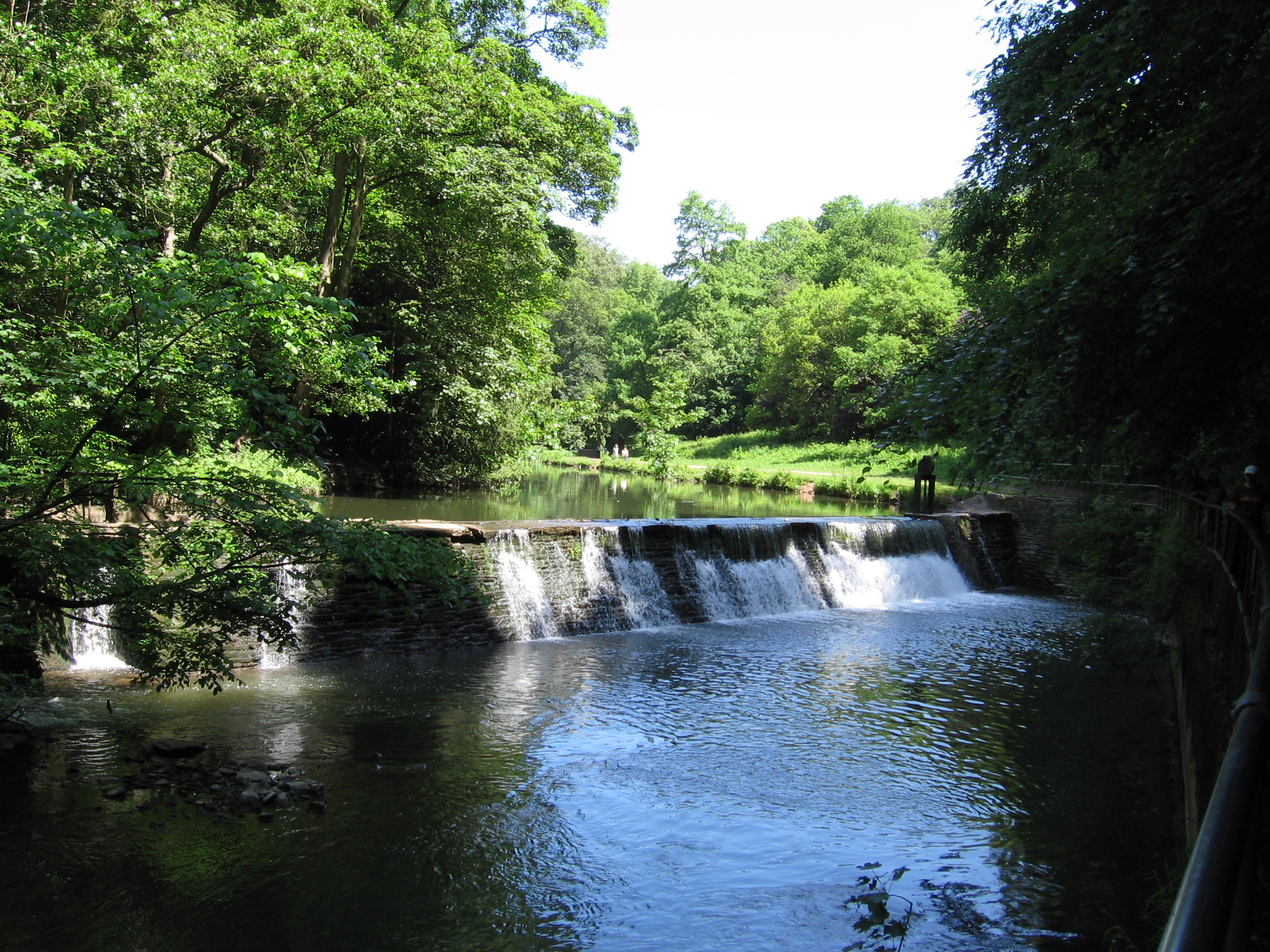 Dam with sluice gates, Repton's Walk, River Frome, Oldbury Court, Bristol.